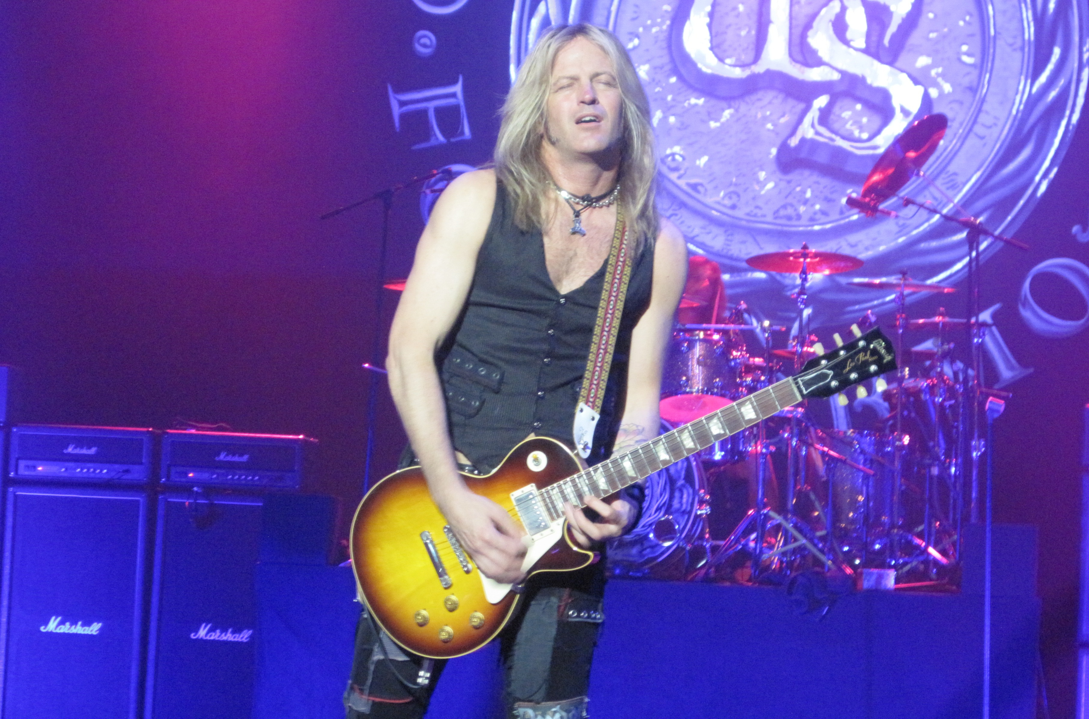 Doug Aldrich on stage at the Manchester Apollo, 17th June 2011